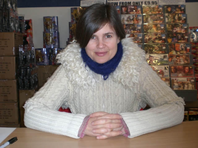 Sophie Aldred at The Television & Movie Store, Norwich, England on 2nd February 2008.